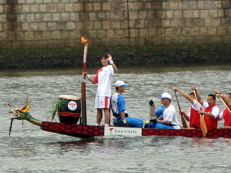 HK Olympic Torch Relay Toach Relay in Shing Mun River Channel